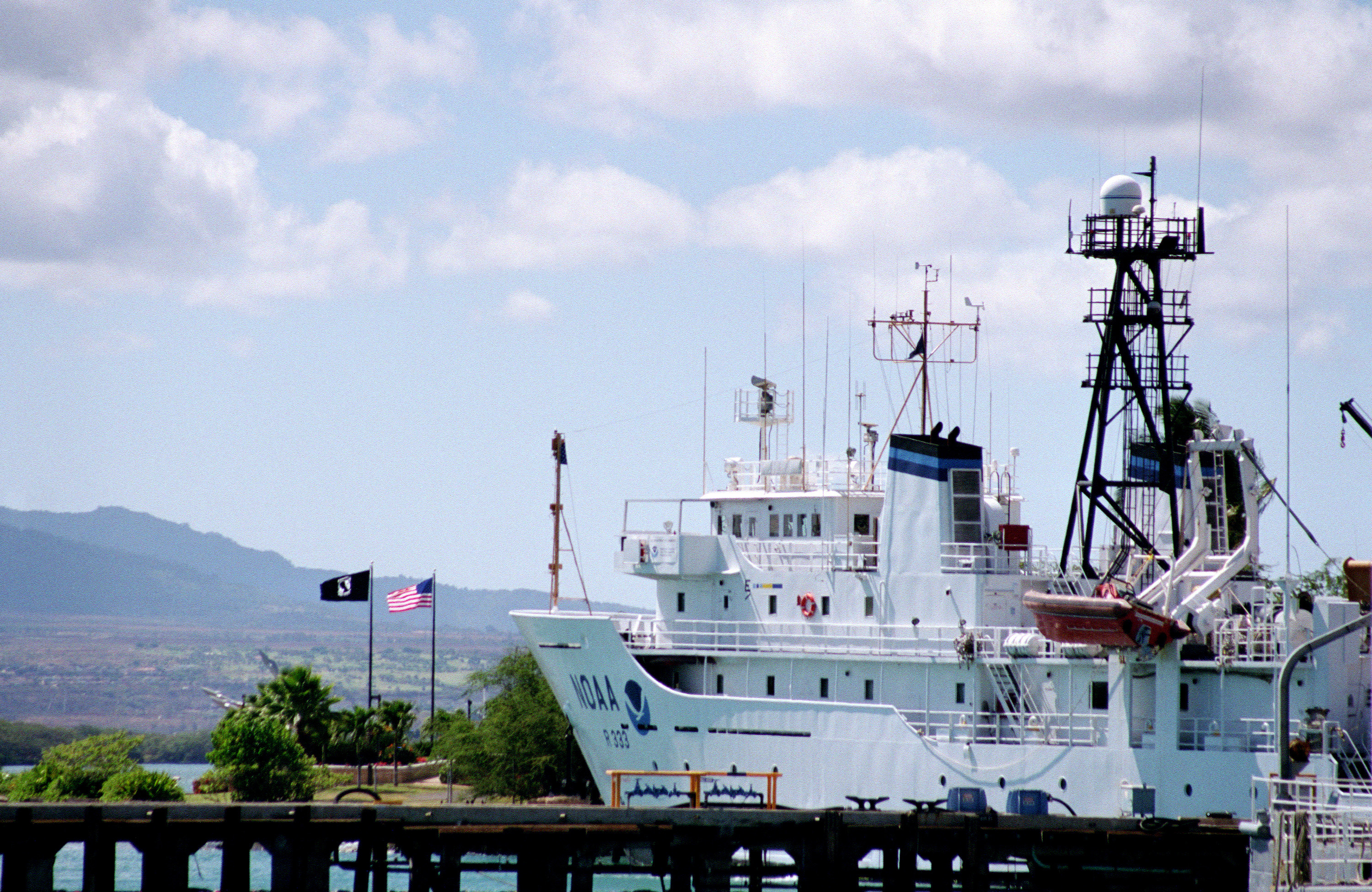 Port side (off centerline) view of the National Oceanographic and Atmospheric Administration research ship NOAA Ka'Imimoana (R 333) (formerly Titan (T-AGOS 15) tied up at the Bishop Point wharf at the entrance to Pearl Harbor.Location: PEARL HARBOR, HAWAII (HI) UNITED STATES OF AMERICA (USA)